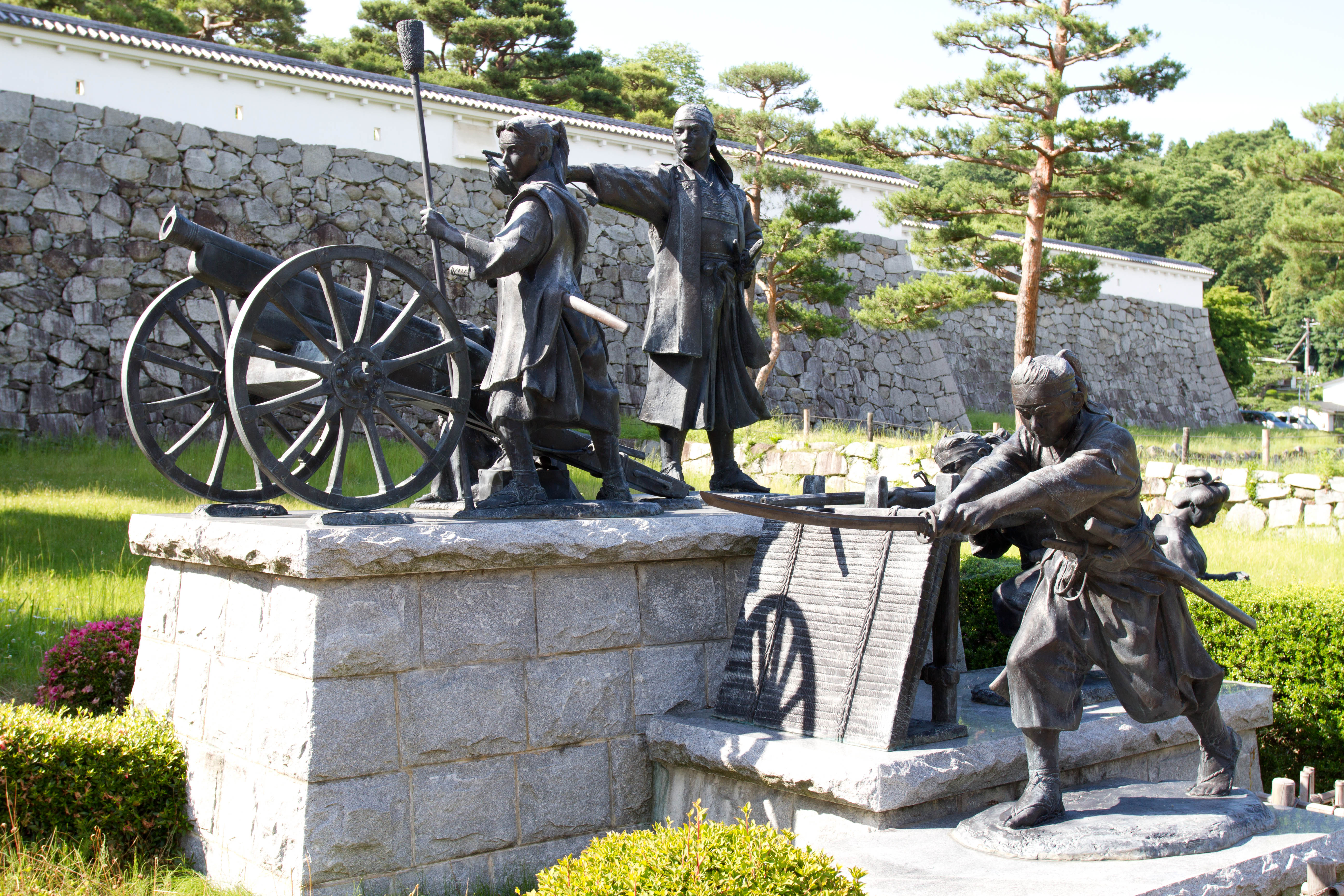 Nihonmatsu Castle, Nihonmatsu Shonentai Manifestation Monument